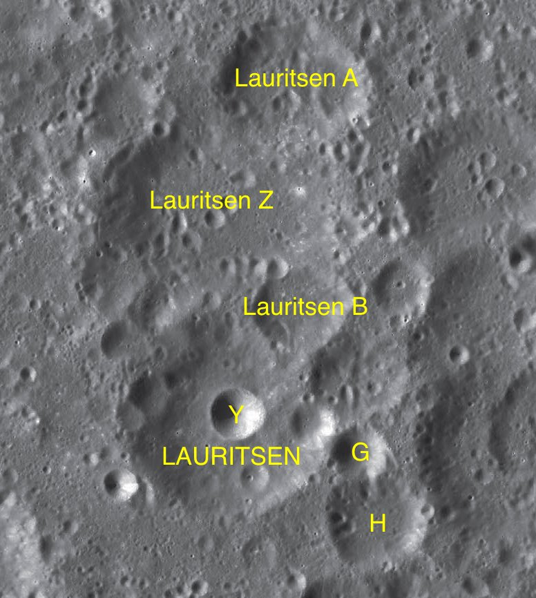 Part of the chart LAC-100 used for the presentation